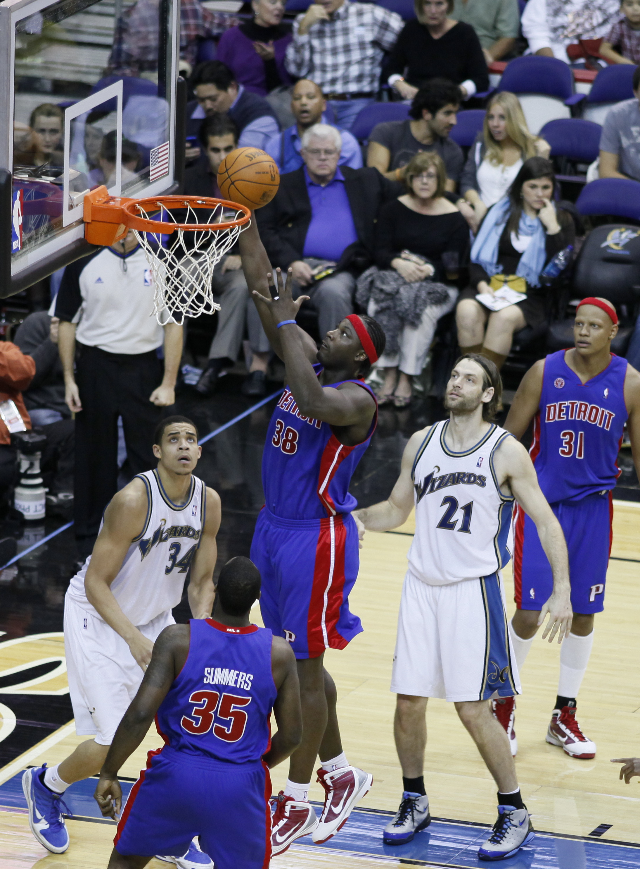 Kwame Brown playing with the Detroit Pistons.